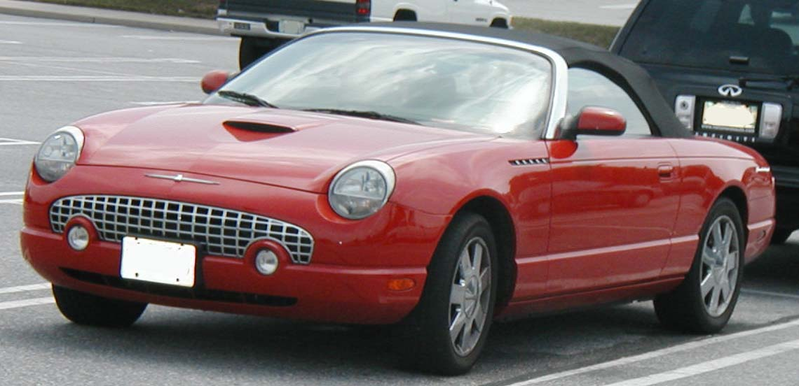 2002-2005 Ford Thunderbird photographed in USA.